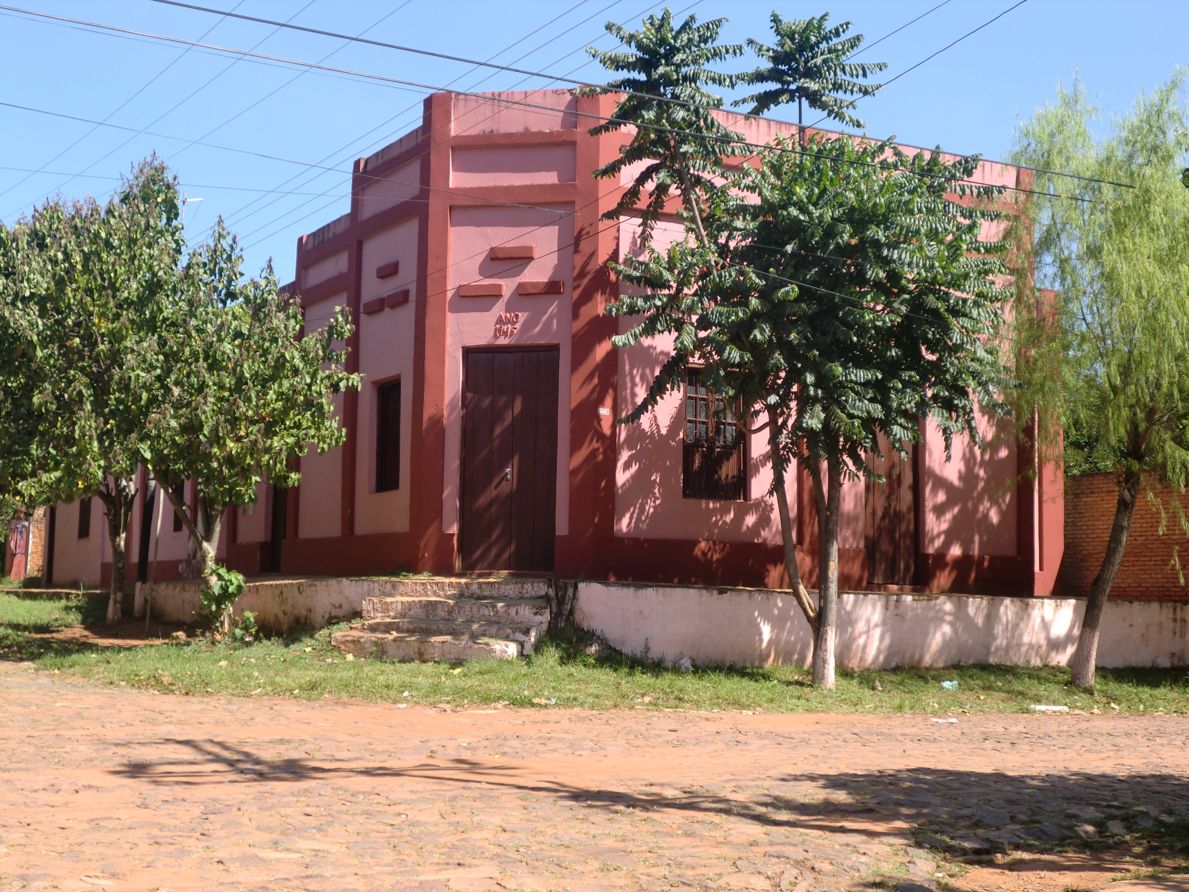 An old house